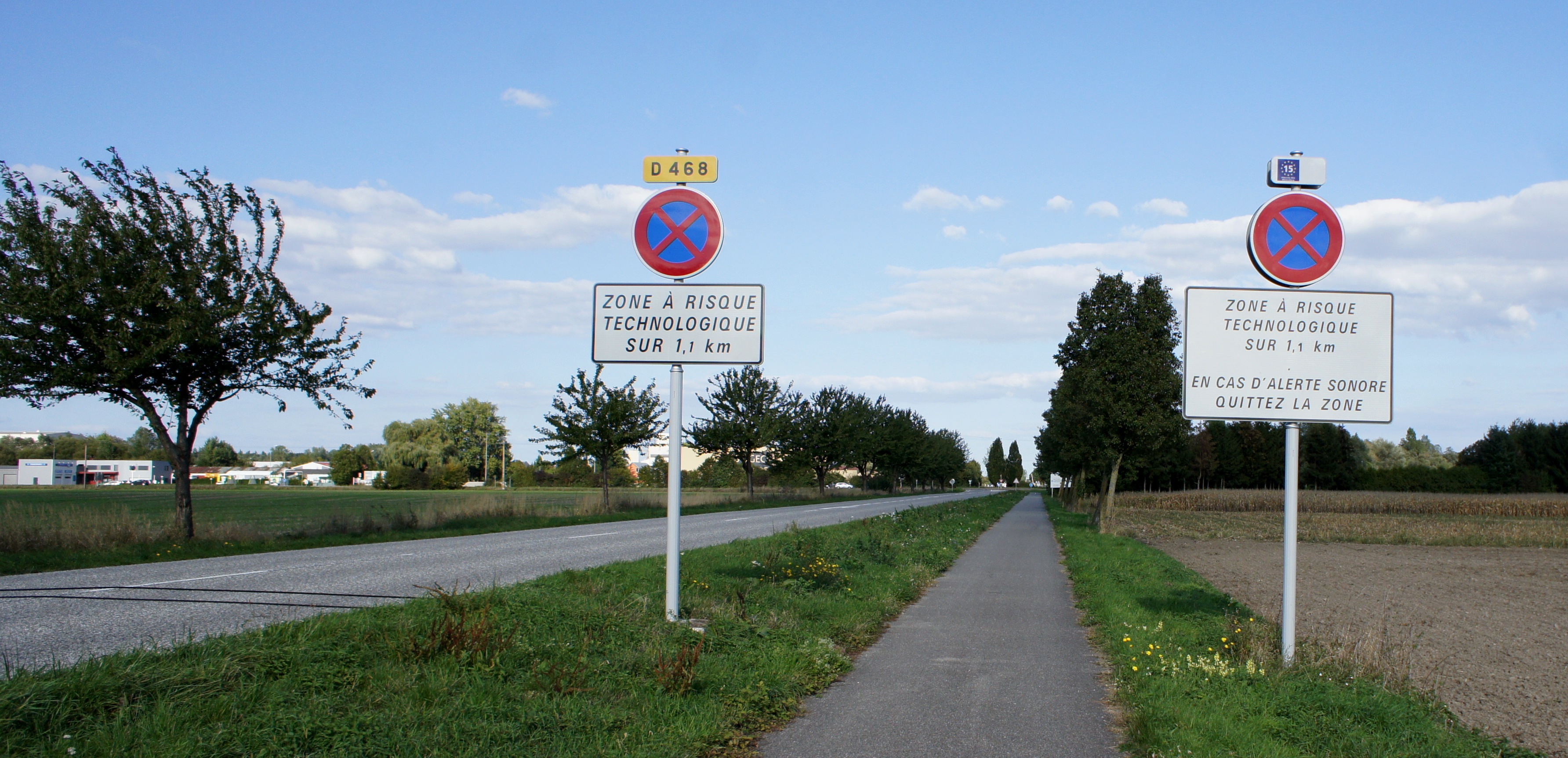 Sign telling people they are entering a area with technical risks. This area is limited around the Dow Chemicals AgroSciences campus in Drusenheim in Alsace, France.